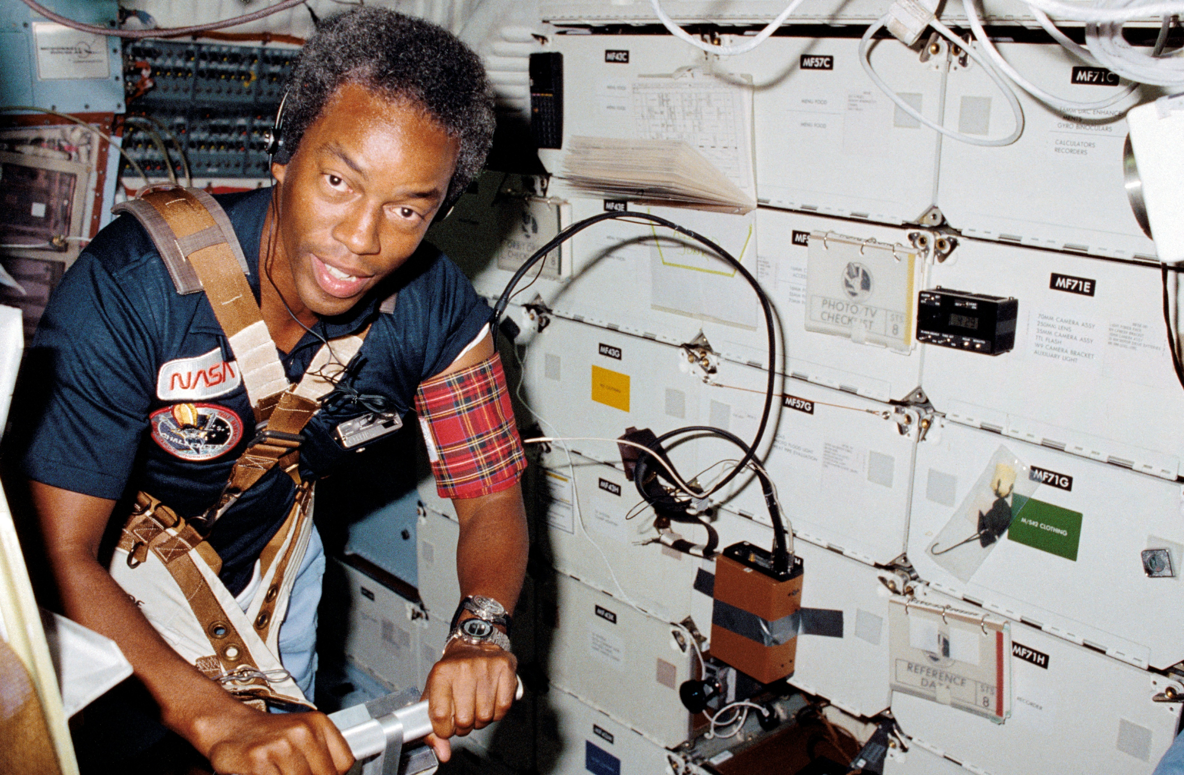 On Challenger's middeck, Mission Specialist (MS) Guion Bluford, restrained by harness and wearing blood pressure cuff on his left arm, exercises on the treadmill. Forward lockers with data recording units and checklist notebooks are to the left of Bluford.